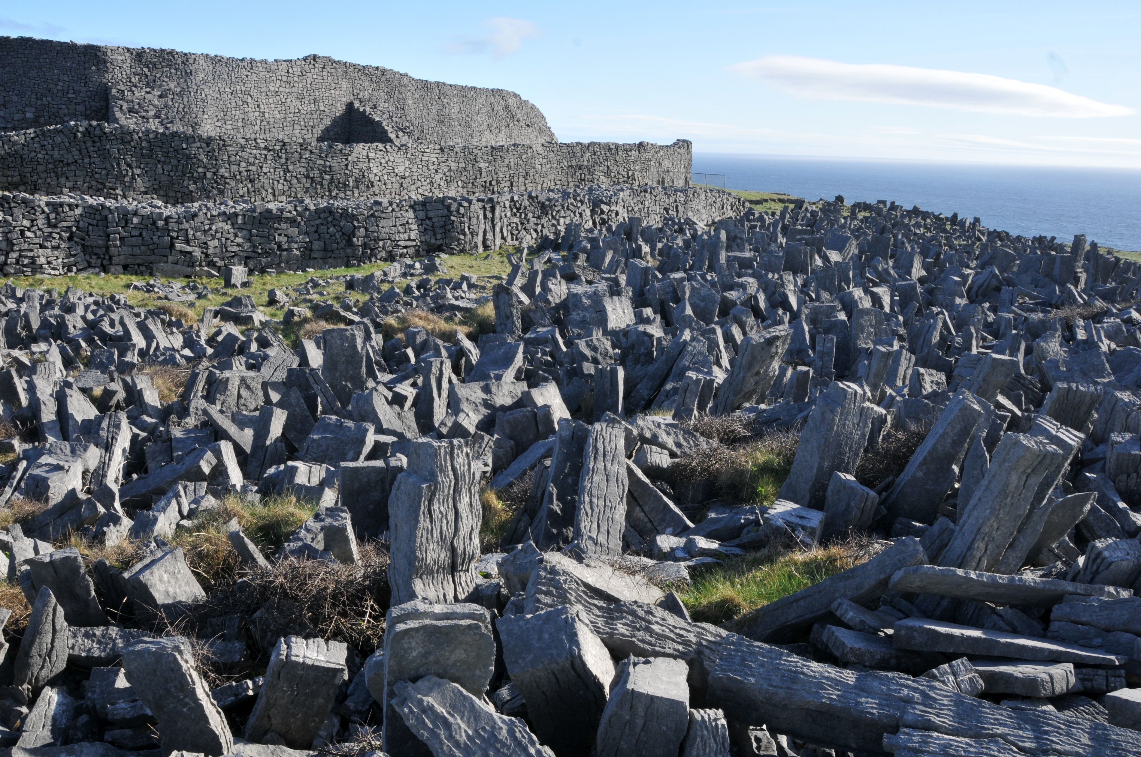 Cheval de frise on the west side of Dún Aonghasa, Inishmore, Aran Islands, Ireland.